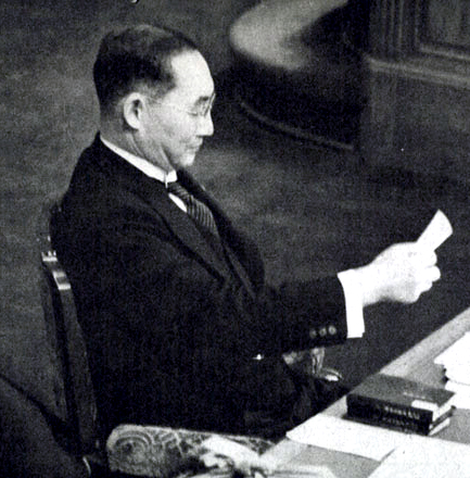 Japanese Prime Minister Mitsumasa Yonai (1880–1948, in office January–July 1940) reads memo at the prime minister’s seat in the House chamber.